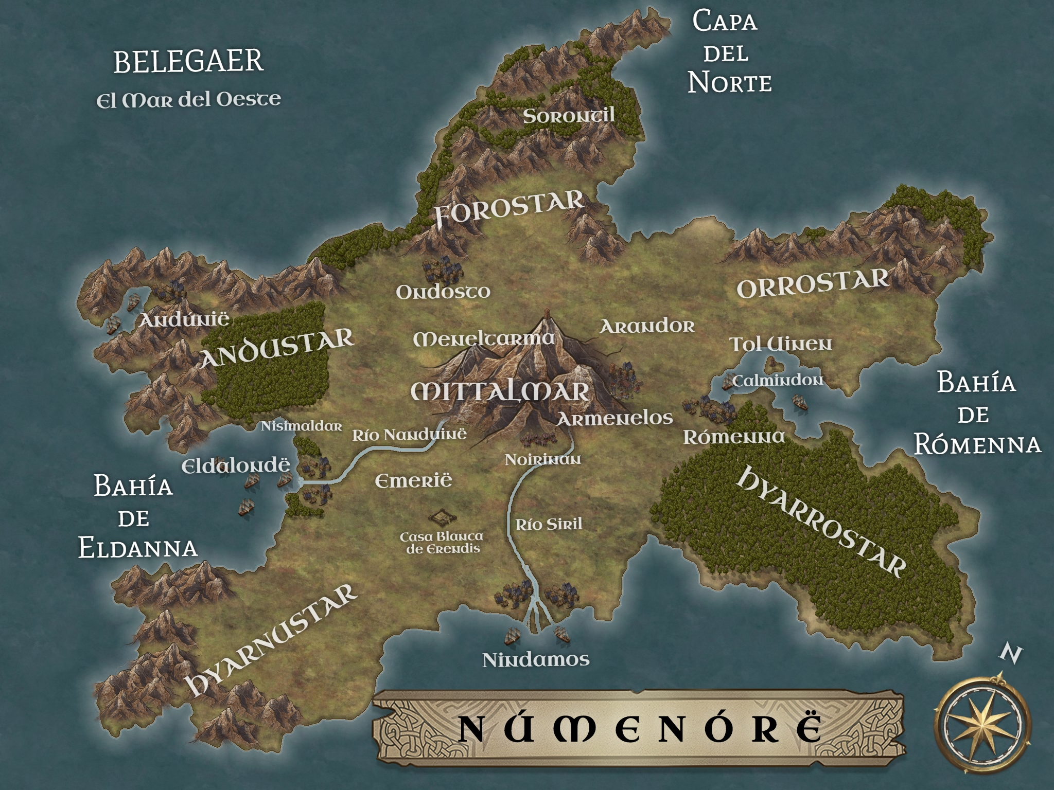 Map of Númenor